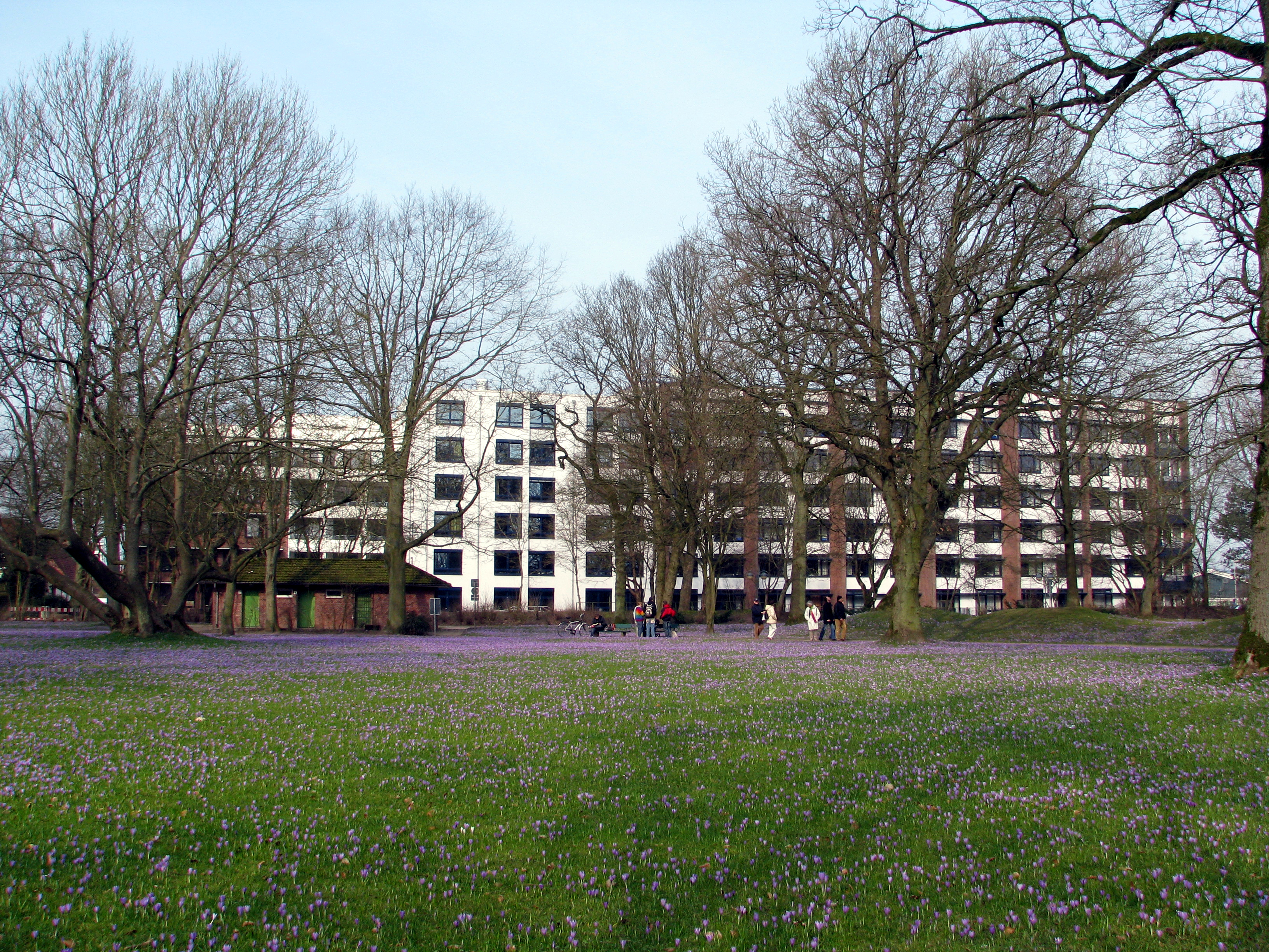 Hospital in Husum, Northern Frisia, Germany